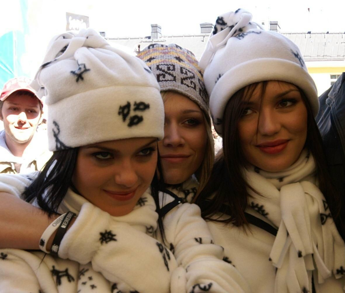 Russian girlgroup Serebro during the Eurovision Song Contest Week in Helsinki. Left to right: Elena Temnikova, Marina Lizorkina and Olga Seryabkina